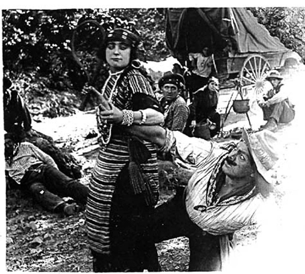 Shot from film The Gypsy Queen 1913.